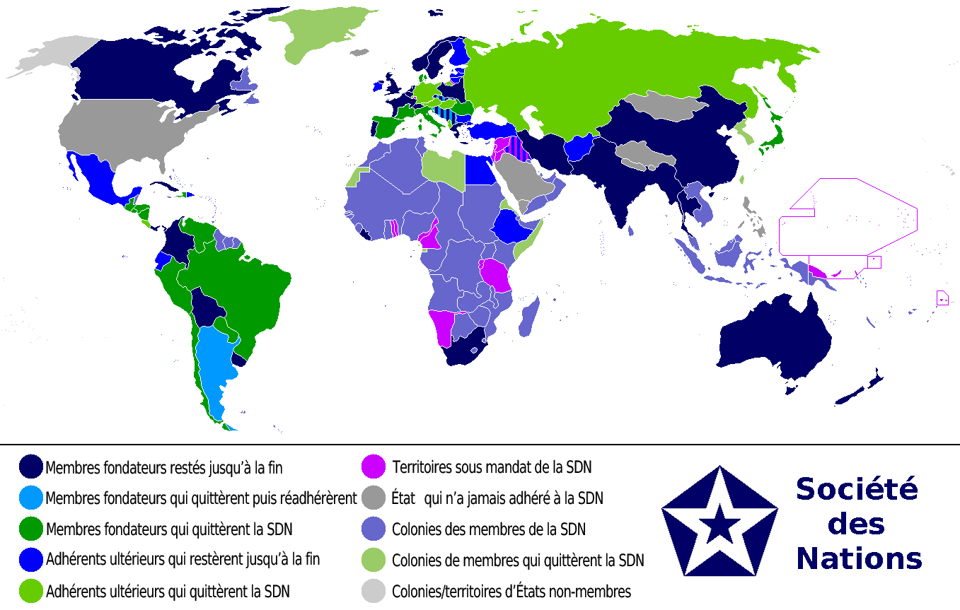 [Version en français] Carte du monde entre 1920 et 1945 montrant la place de la Société des Nations / Anachronous map of the world between 1920-1945 which shows the The League of Nations and the world.